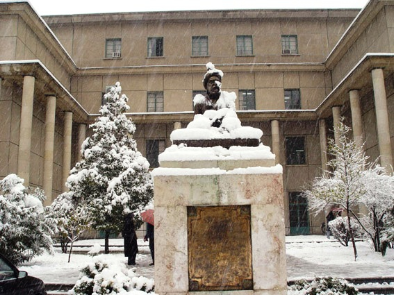 Statue of Ferdowsi from 1934 (first located at Ferdowsi square and replaced in 1976), School of literature and Humanities in snow.